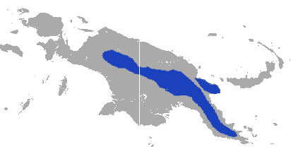 Small Dorcopsis (Dorcopsulus vanheurni) range